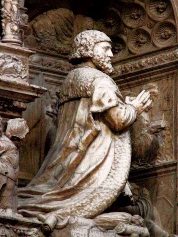 Statue of Francisco de Vargas y Medina